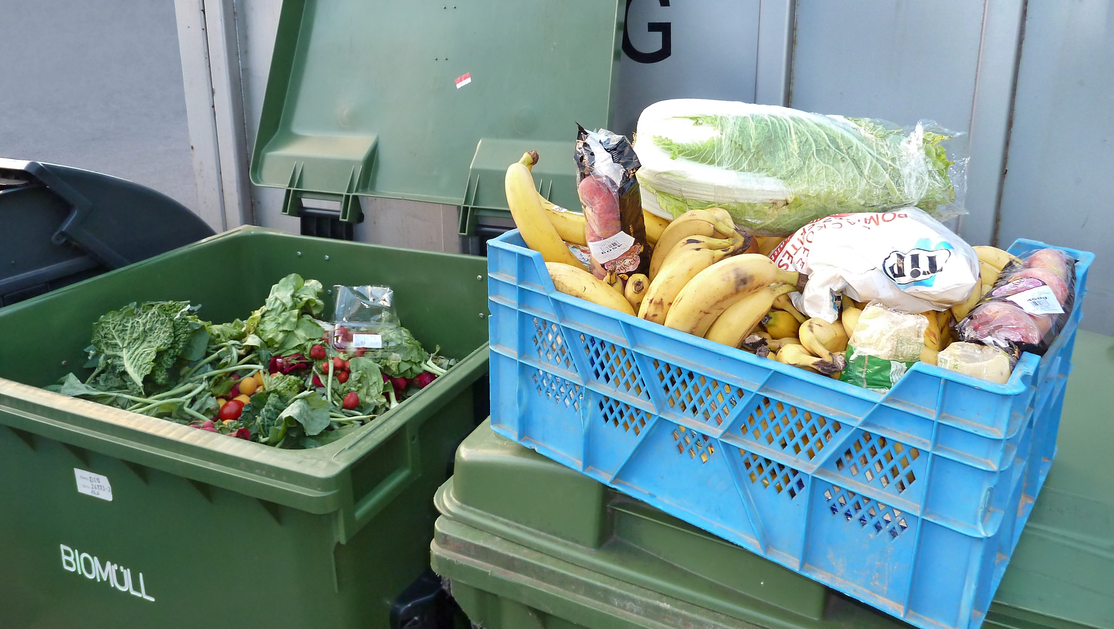 A box full of recovered vegetables and fruits dug out of the waste of a hypermarket